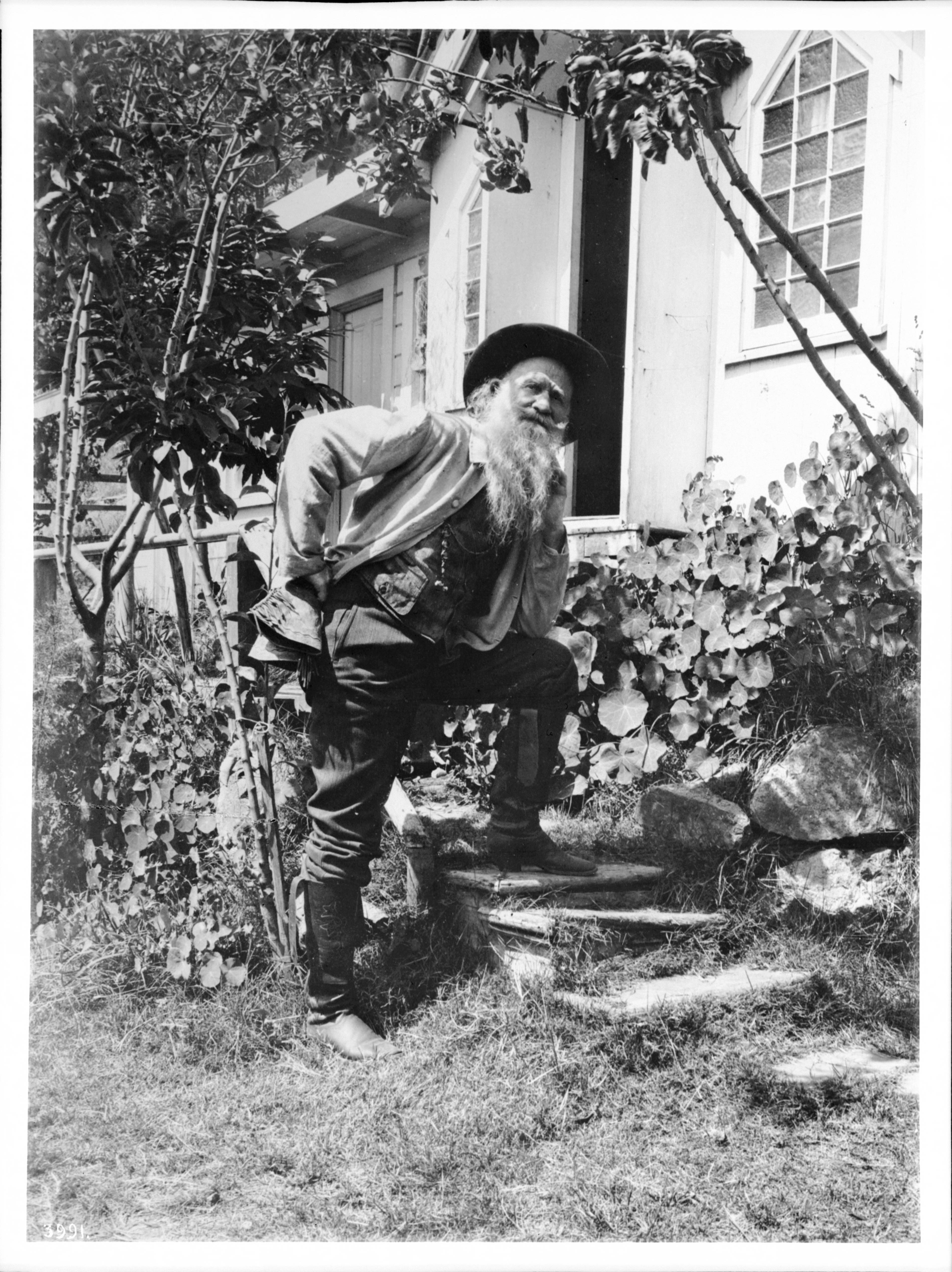 Photographic portrait of Joaquin Miller standing in front of his home, "The Abbey", in Oakland, ca.1898. Known as the "Poet of the Sierras". He can be seen wearing a wide brimmed hat, jacket, trousers, boots, and leather gloves with a fringe. He has a long flowing white beard with moustache. His left elbow is leaning on his left leg which is raised with his foot on a step to the porch. Small trees and bushes grow closely around the house. Miller lived from 1837-1913 and was born Cincinnatus Hiner Miller.